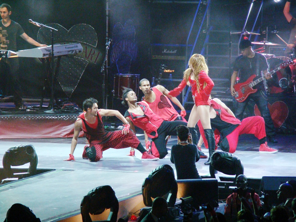 Miley Cyrus singing live in Curicica, Rio de Janeiro, RJ, BR from her tour 'Gypsy Heart'